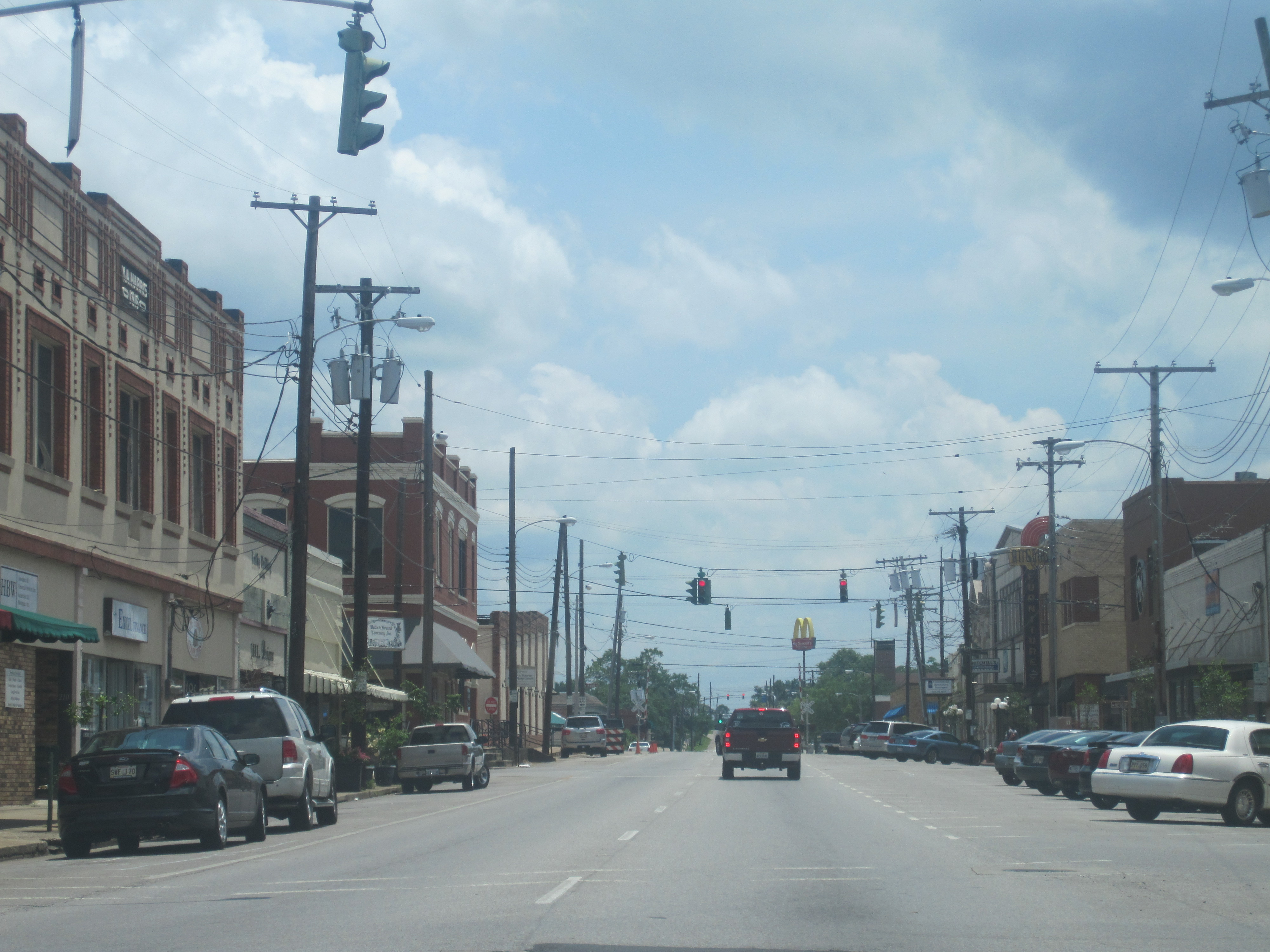 I took photo with Canon camera.